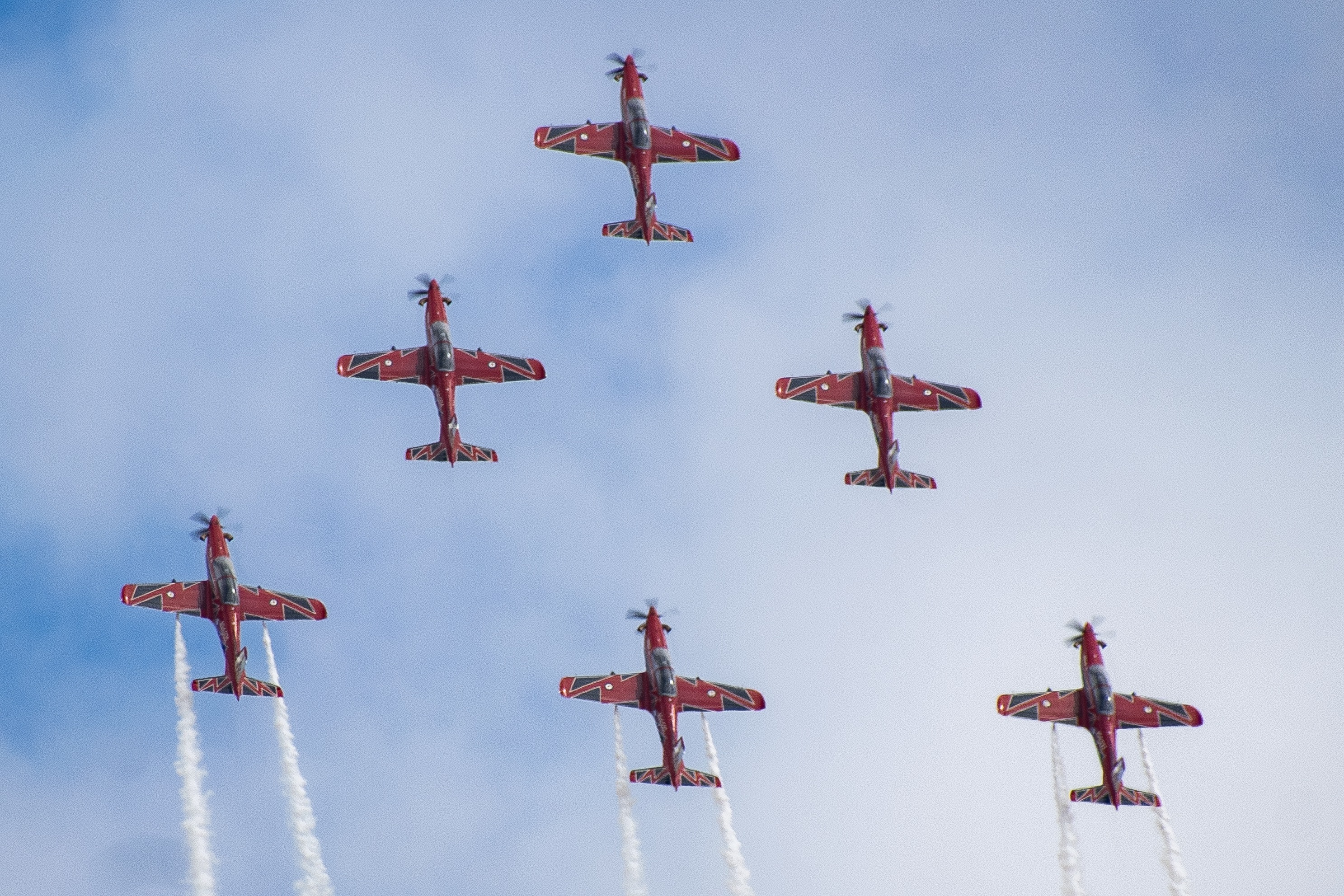 RAAF Roulettes performing at the Edinburgh Airshow 2019